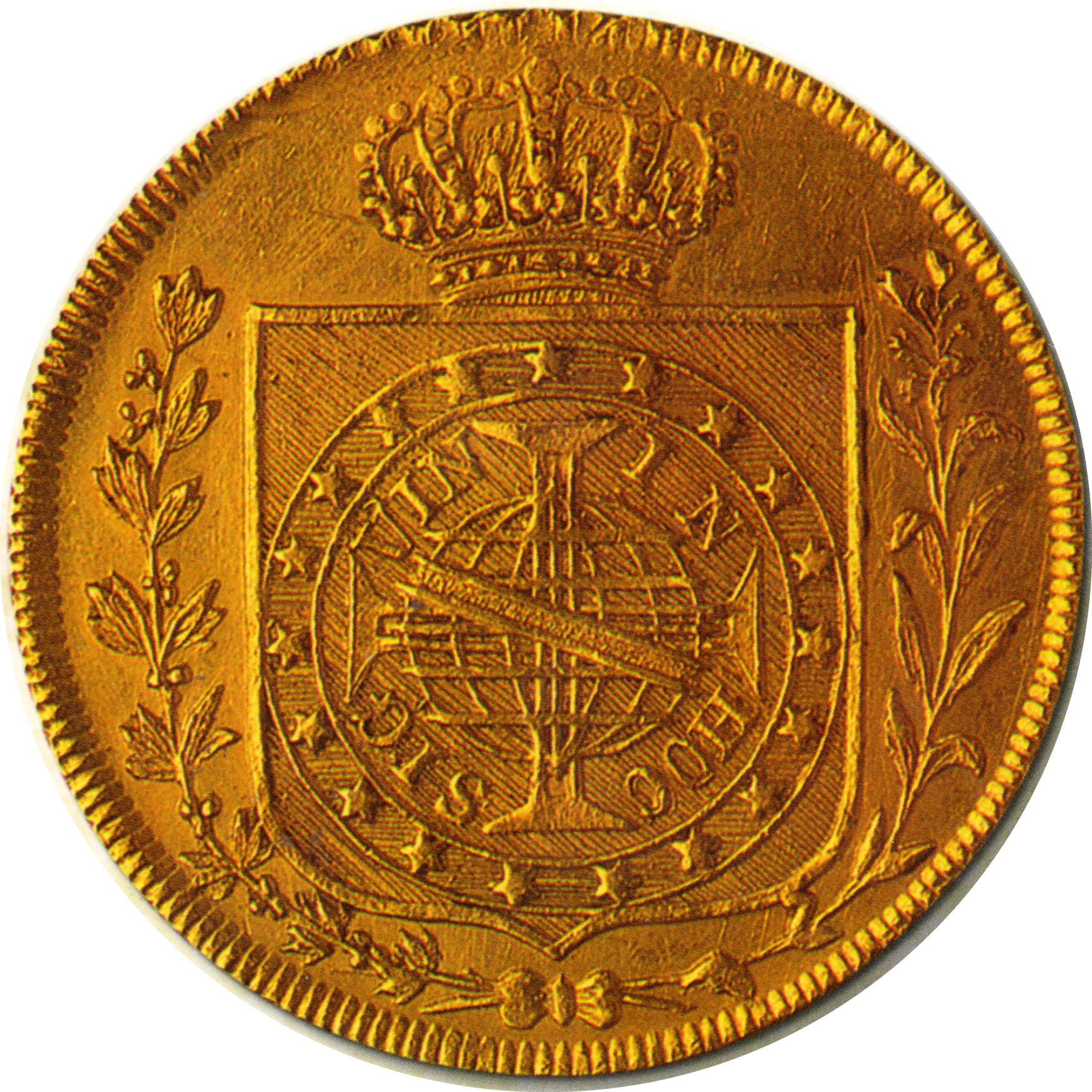 Coronation Piece in 1822.